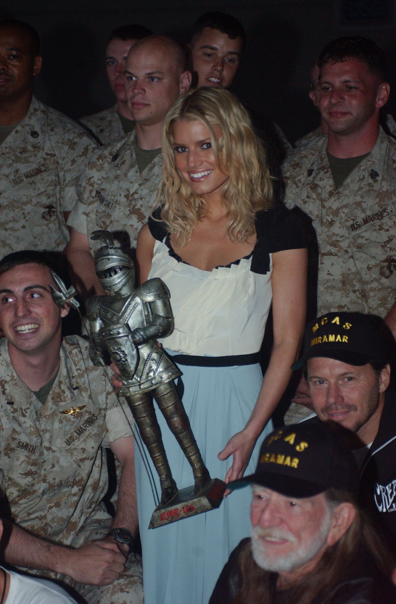 Subject: Jessica Simpson Source image url: Photographer: Cpl. Jonathan K. Teslevich PhotoID: 20058422241 Submitted (to military web site) by: MCAS Miramar Operation/Exercise/Event: Dukes of Hazzard Date taken: July 29, 2005 Original description: Jessica Simpson, Willie Nelson (bottom right) and producer Billy Gerber (far right) pose for a photo amongst Marines with Marine Medium Helicopter Squadron 165, Marine Aircraft Group 16, 3rd Marine Aircraft Wing, before a premiere of the movie, "The Dukes of Hazzard," at the Bob Hope Memorial Theater at Marine Corps Air Station Miramar July 29. The three, along with cast member Johnny Knoxville and director Jay Chandrasekhar, signed autographs and had their pictures taken with Marines and their families.